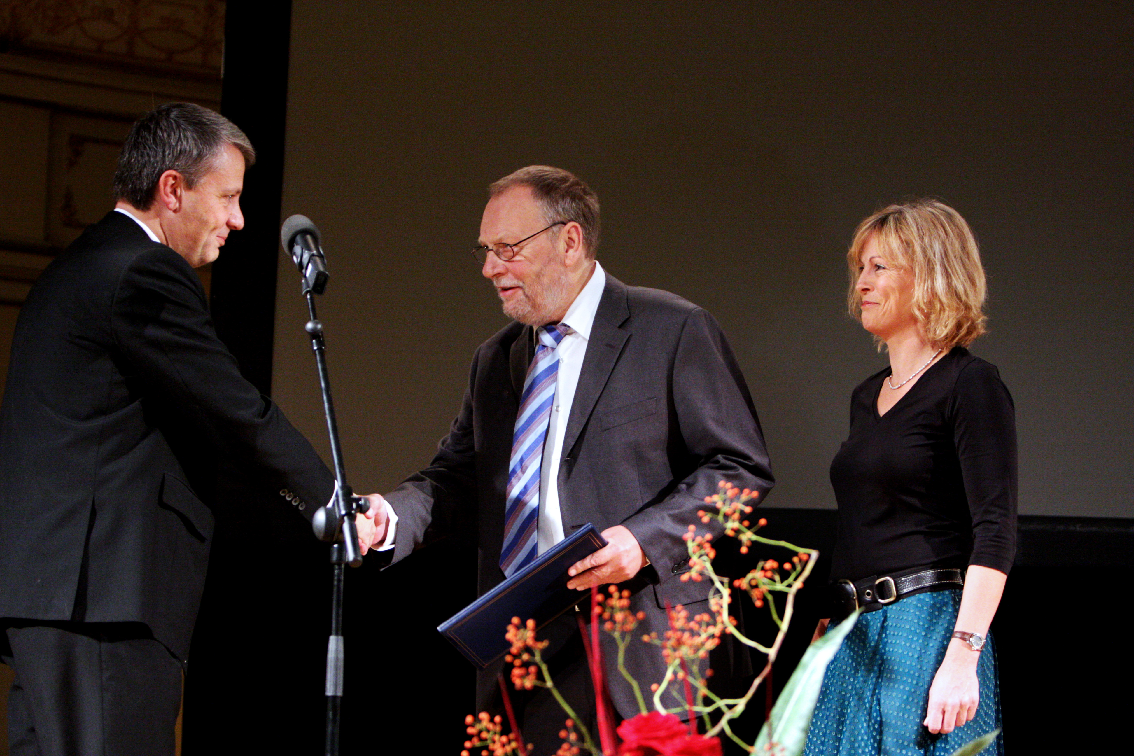 Mayor Finn Aaberg and environmental consultant Anita Monnerup Pedersen from Albert Lund receive the Nordic Council Environment Prize in Oslo by Dagfinn Höybråten. 2007-10-31. Photo: Magnus Fröderberg / .